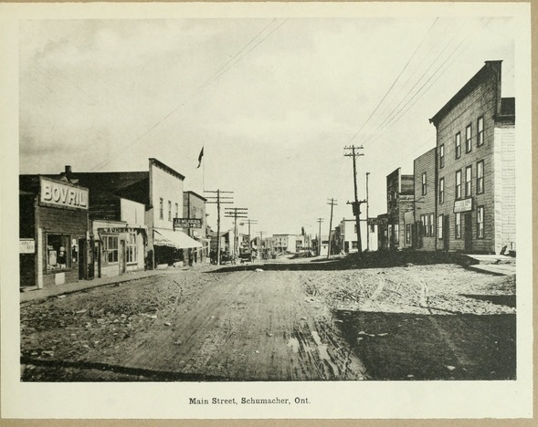 Photograph of the Main Street of Schumacher, Ontario, early 1900s